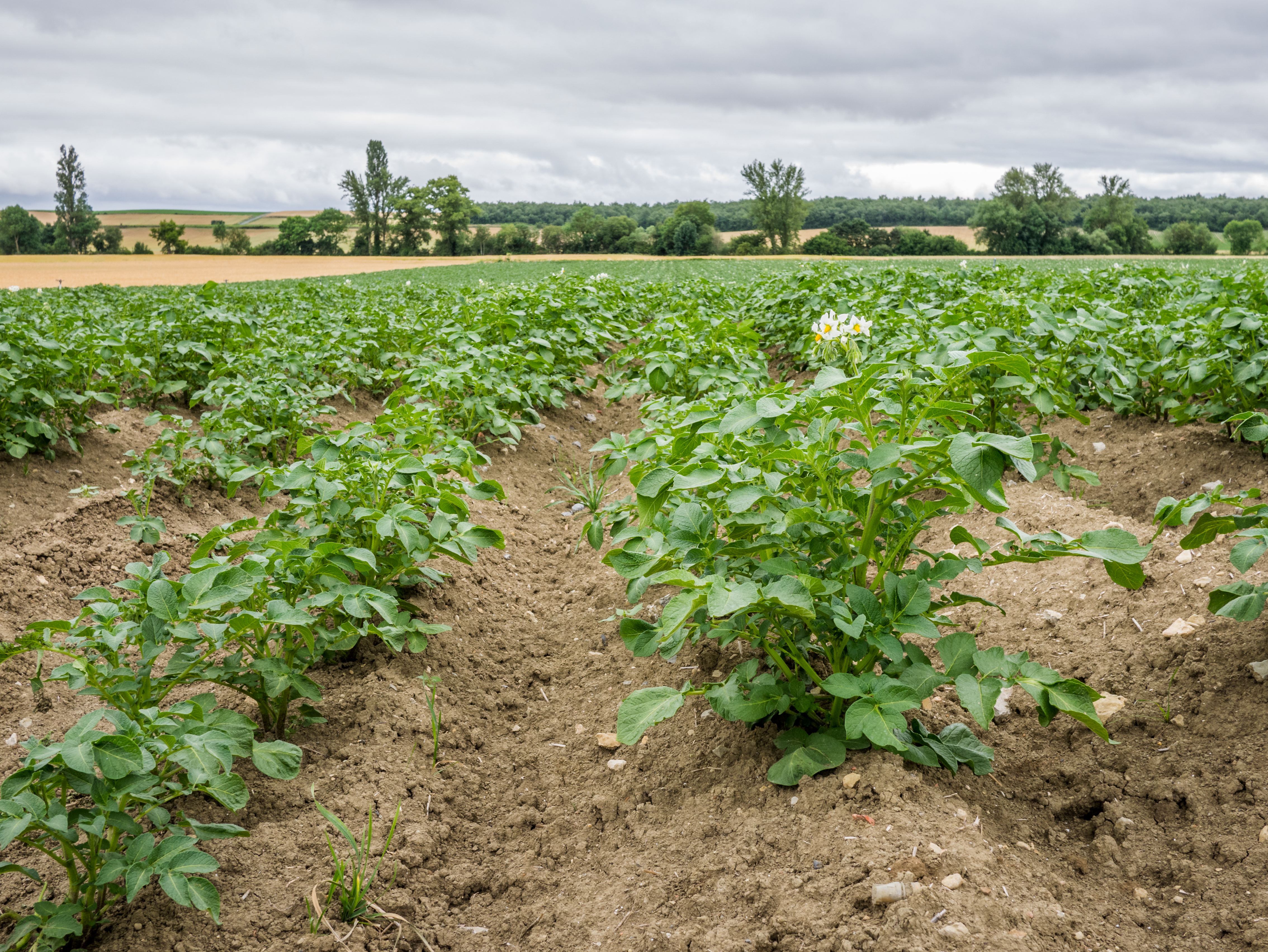 Potato plants near Aberasturi on the Alavese Plains. Basque Country, Spain